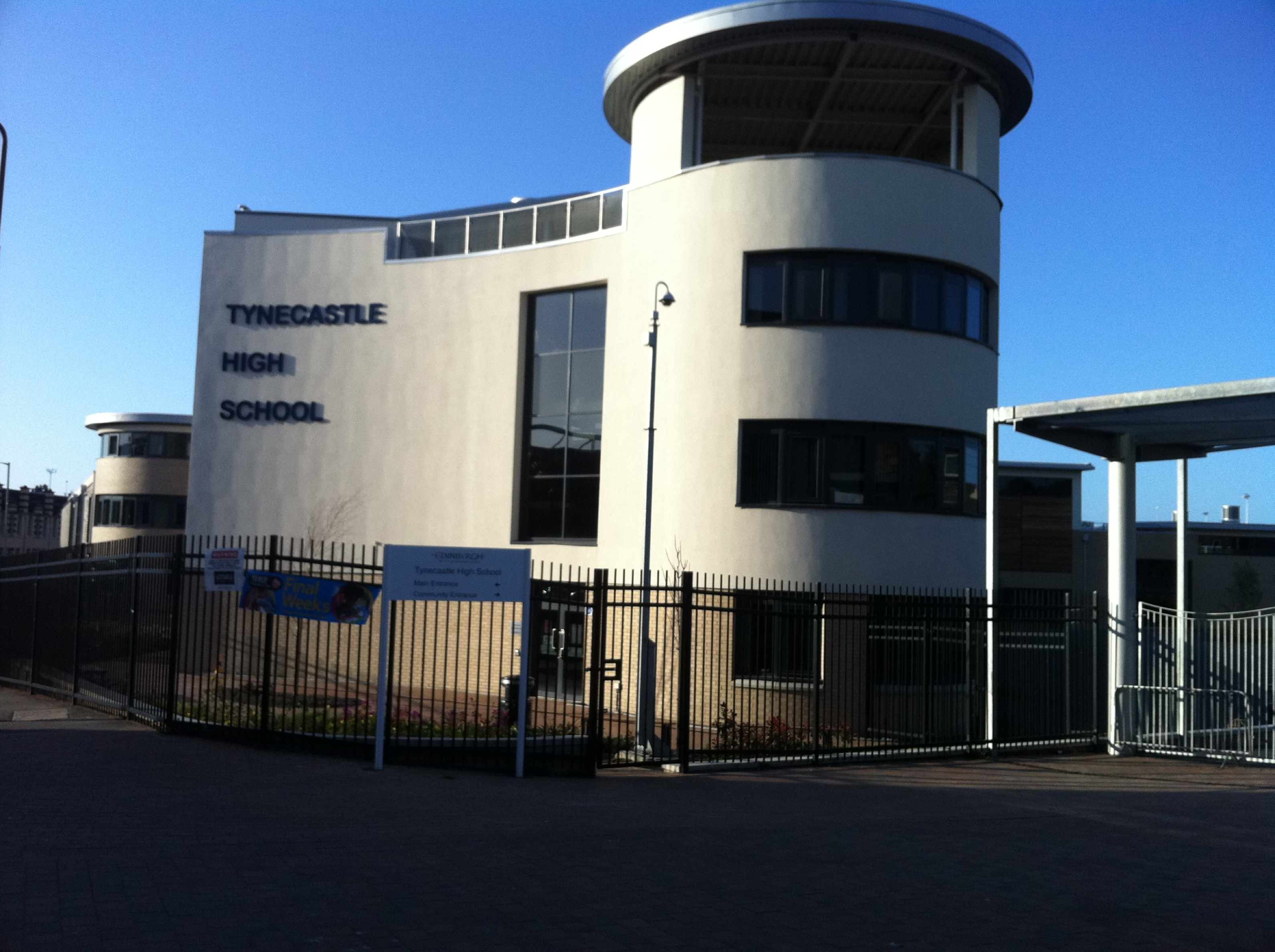 Picture of new tynecastle school